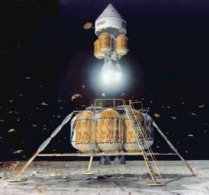 FLO Liftoff